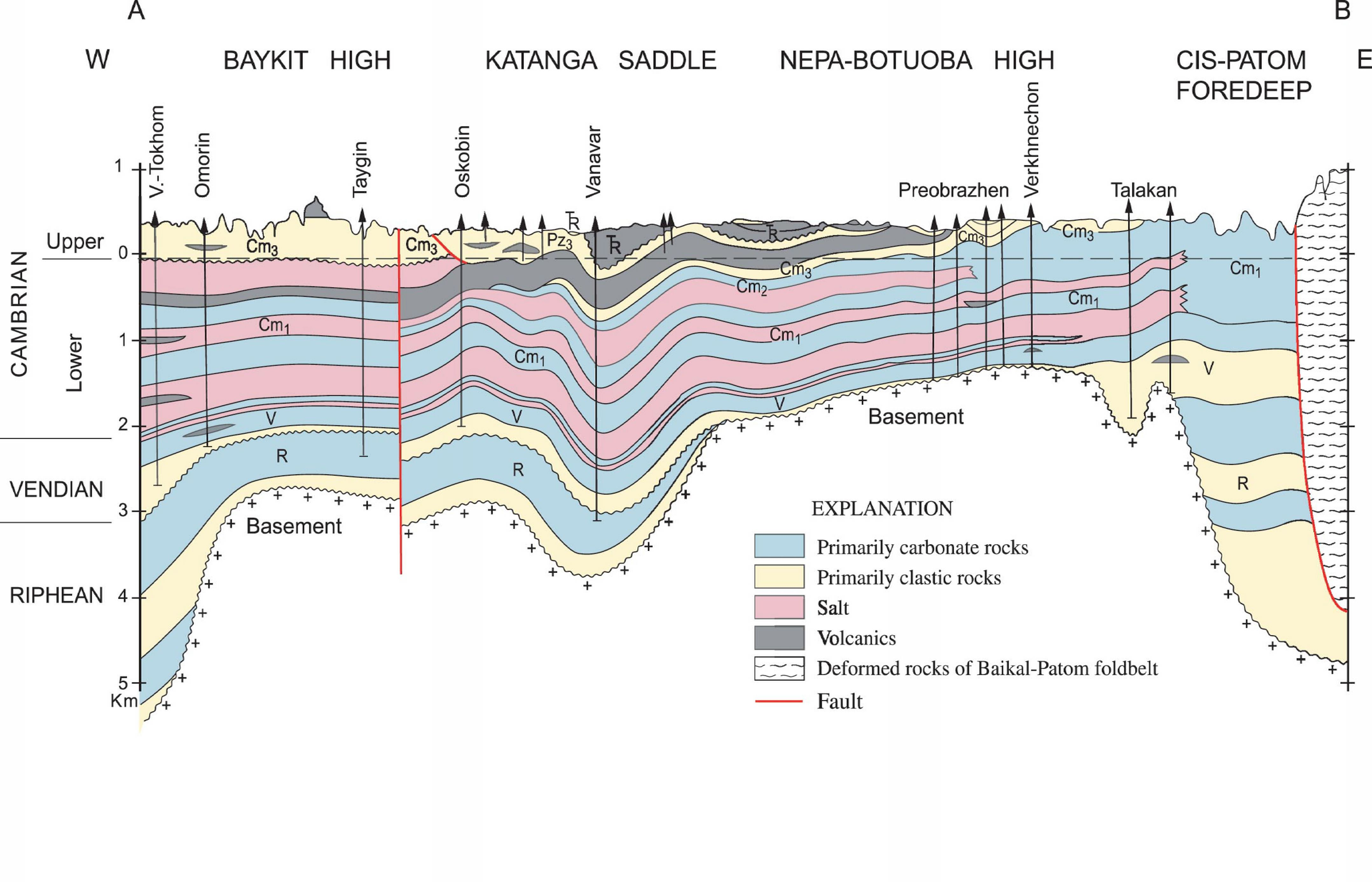 Cross section through southern Siberian craton. Approximate location of cross section A-B in File:Siberian_oil_fields.jpg. Cm1, Cm2, and Cm3, Lower, Middle, and Upper Cambrian, respectively; (R) Riphean; (V) Vendian; (Pz3) upper Paleozoic; (Tr) Lower Triassic. Approximate length of cross section 1,000 km.